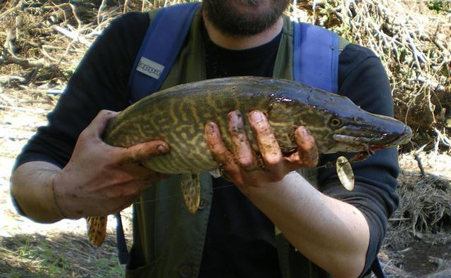 Esox cisalpinus caught in Tuscany, Italy. Released after photo.